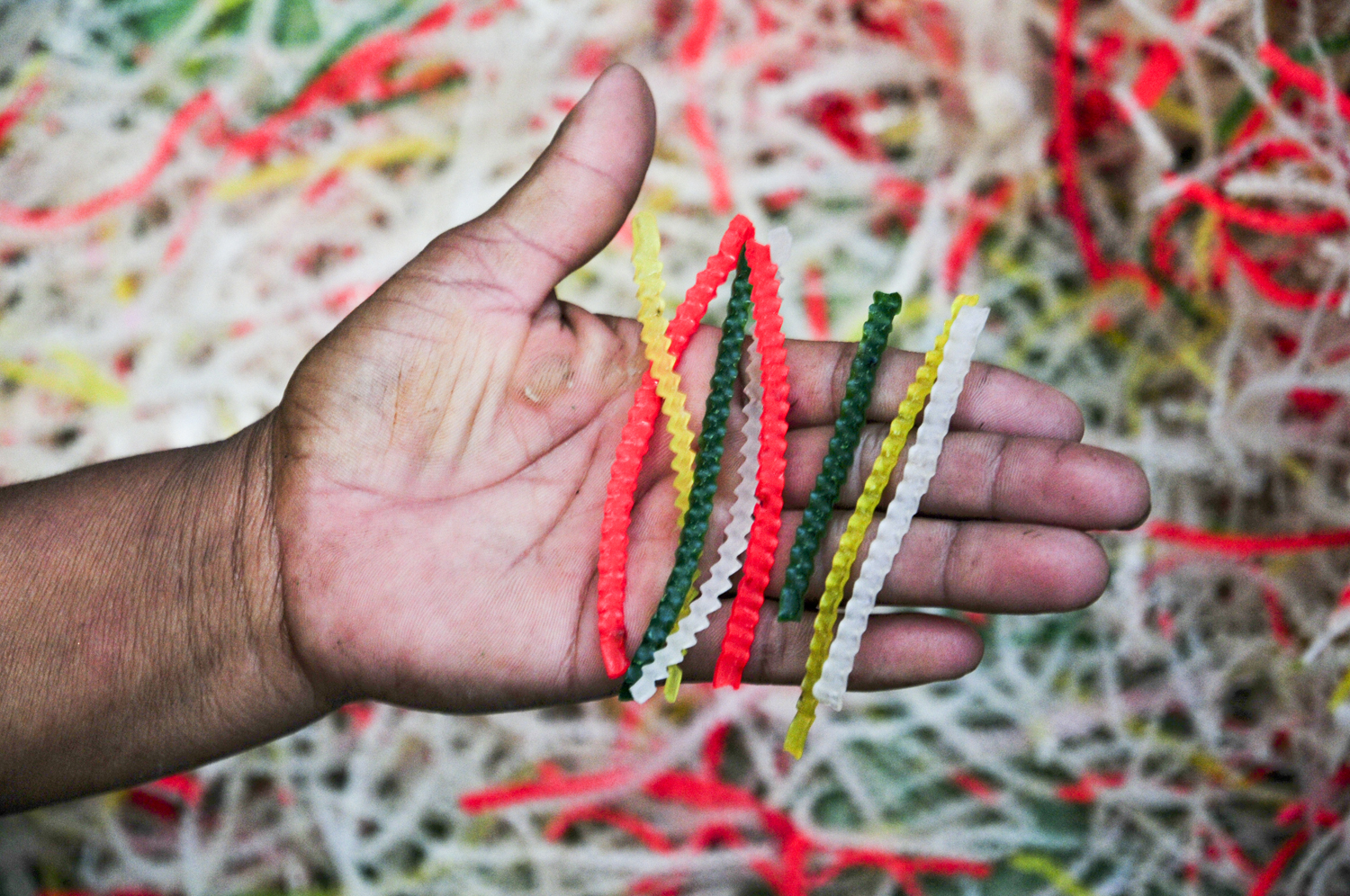 Pic by Neil Palmer (CIAT). Processing cassava starch into cassava noodles, Kampong Cham.